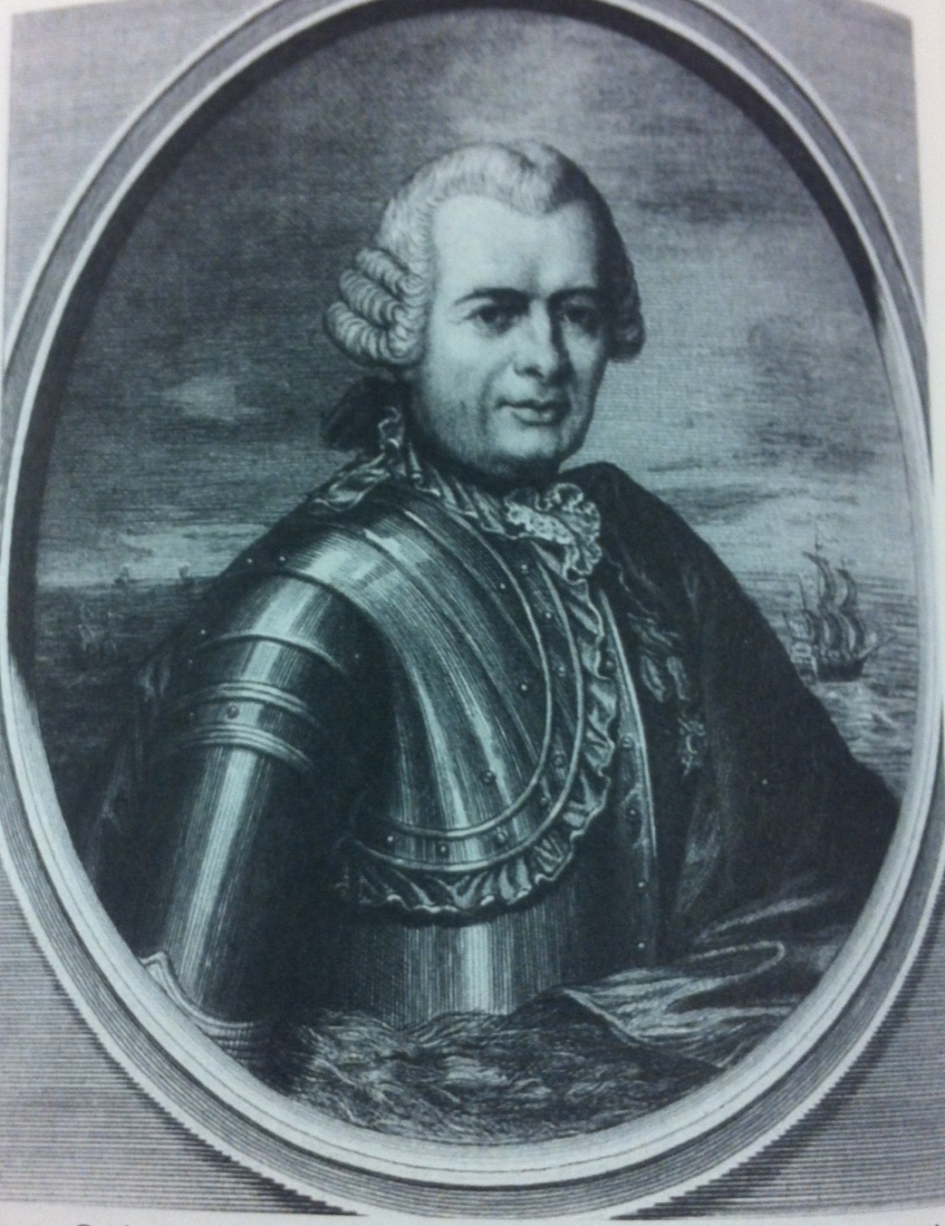 Louis-Joseph Beaussier de l' Isle - Fought in the Siege of Louisbourg 1758